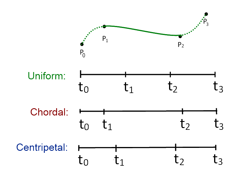 Time parameterization for the Catmull-Rom algorithm.